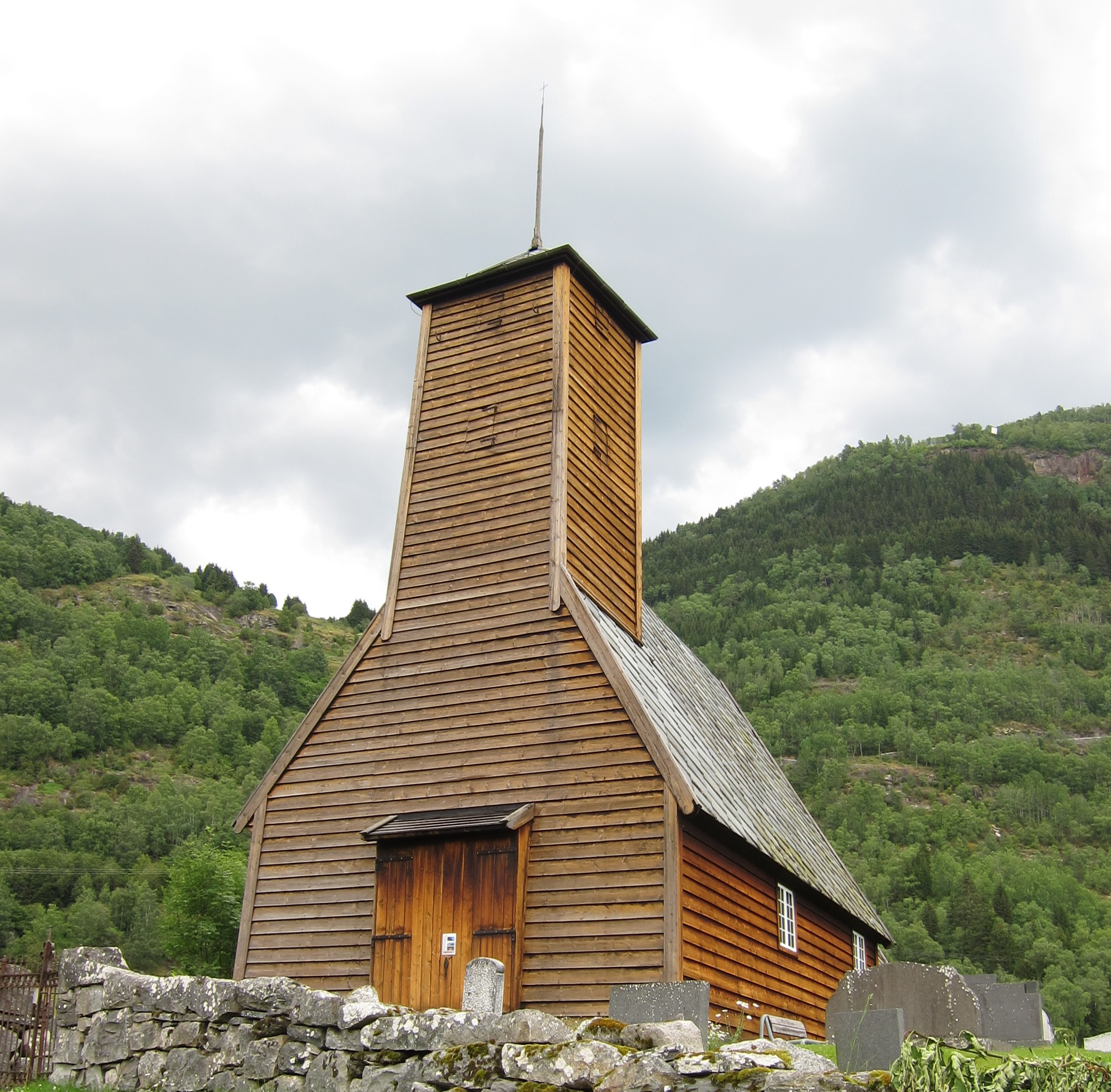 Gaupne old church, Gaupne in Luster, Norway, seen from the west.